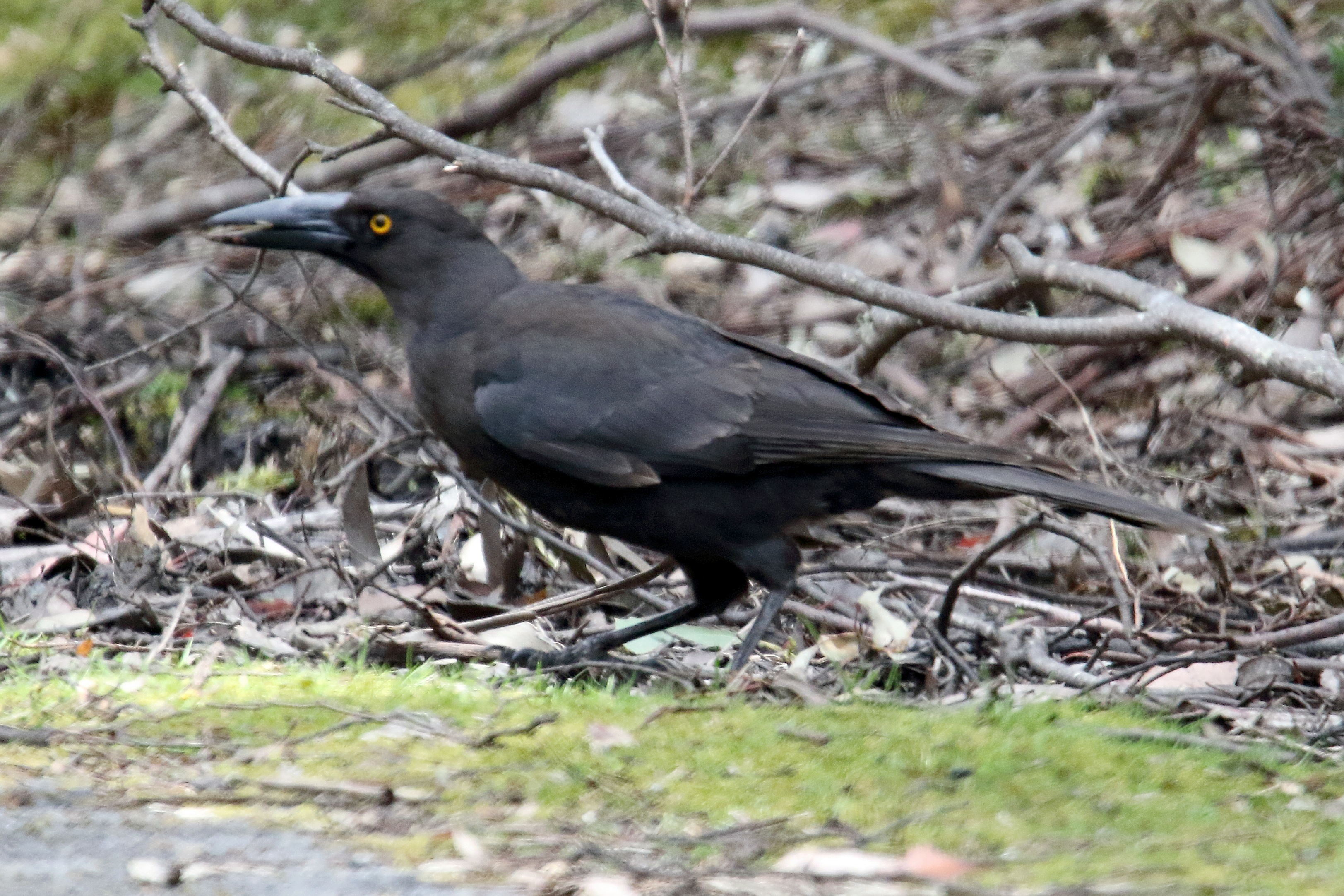 Black Currawong (Strepera fuliginosa)